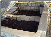 Pilot Project at VJTI